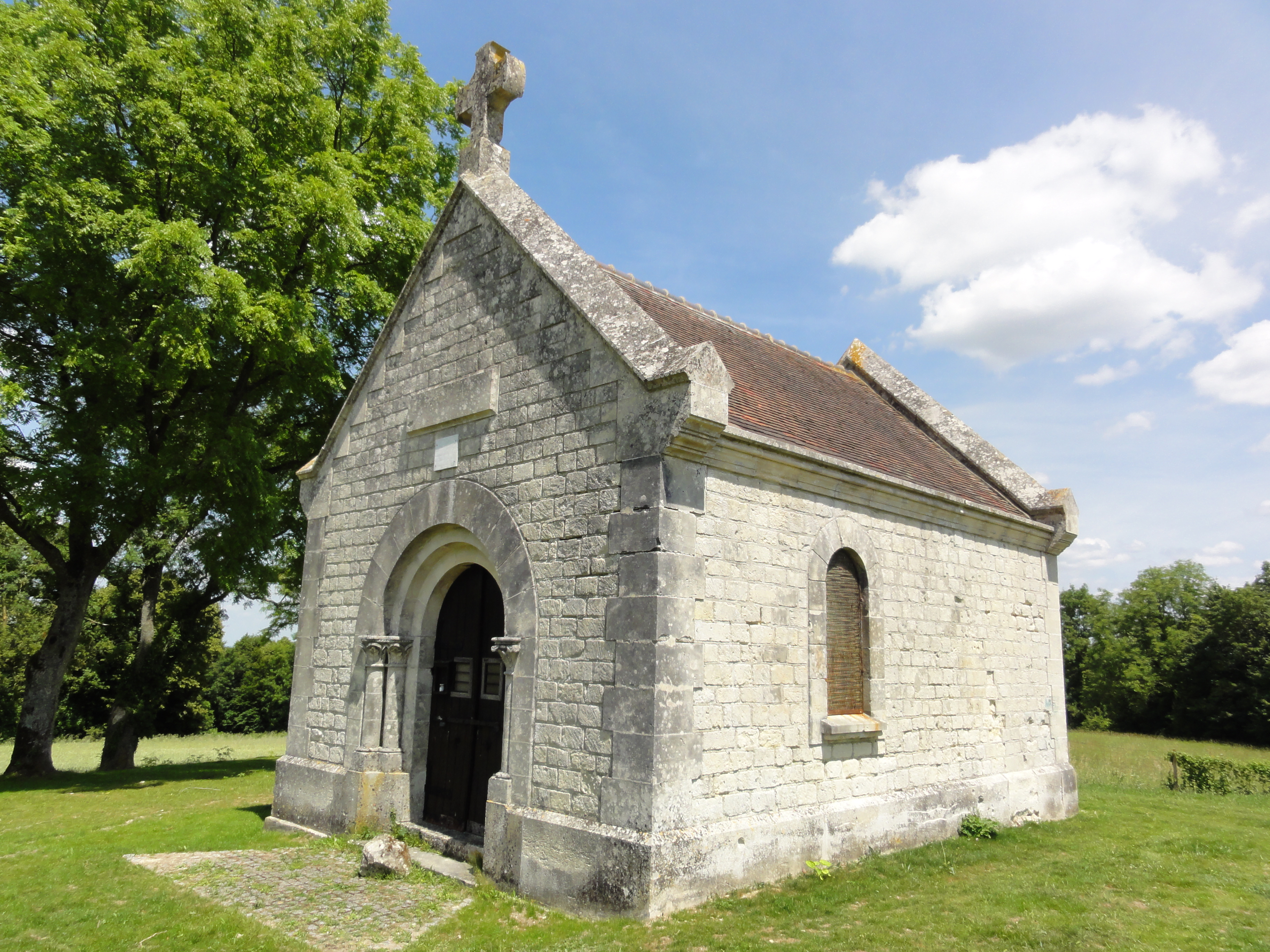 Filain (Aisne) chapelle Berthe, extérieur